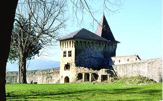 Ostrozac Castle